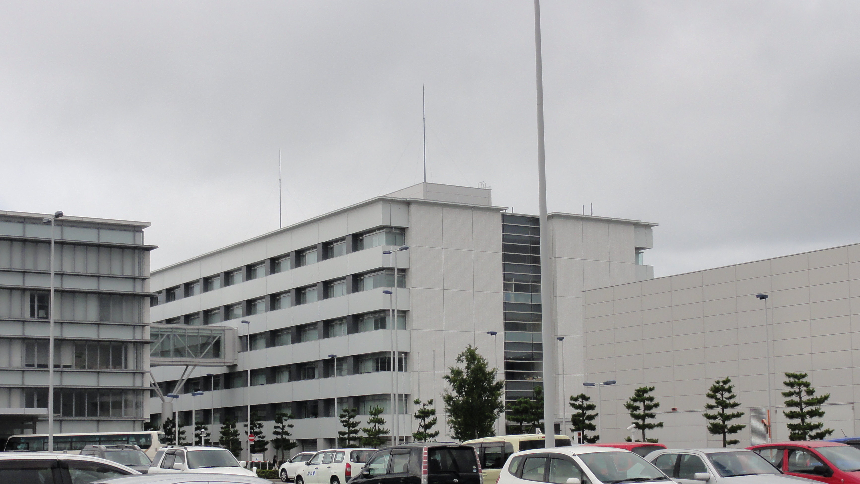 Headquarters of Central Japan International Airport CO.,LTD,Aichi Prefecture, Japan